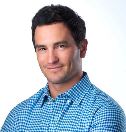 Jeremy Bloom Headshot